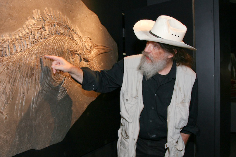 Dr. Bob Bakker of the Houston Museum of Natural Science (HMNS).